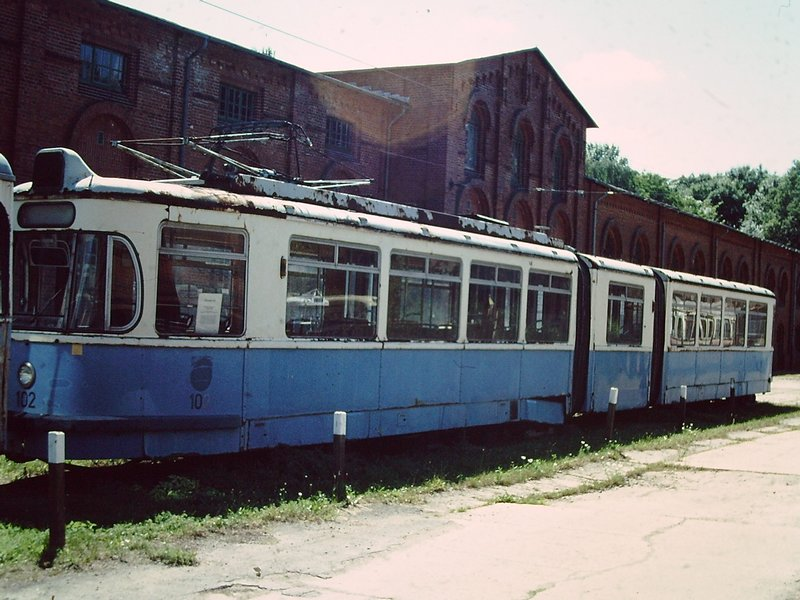 Munich Tram 102, Class P1, in Hanover tramway Museum 1996